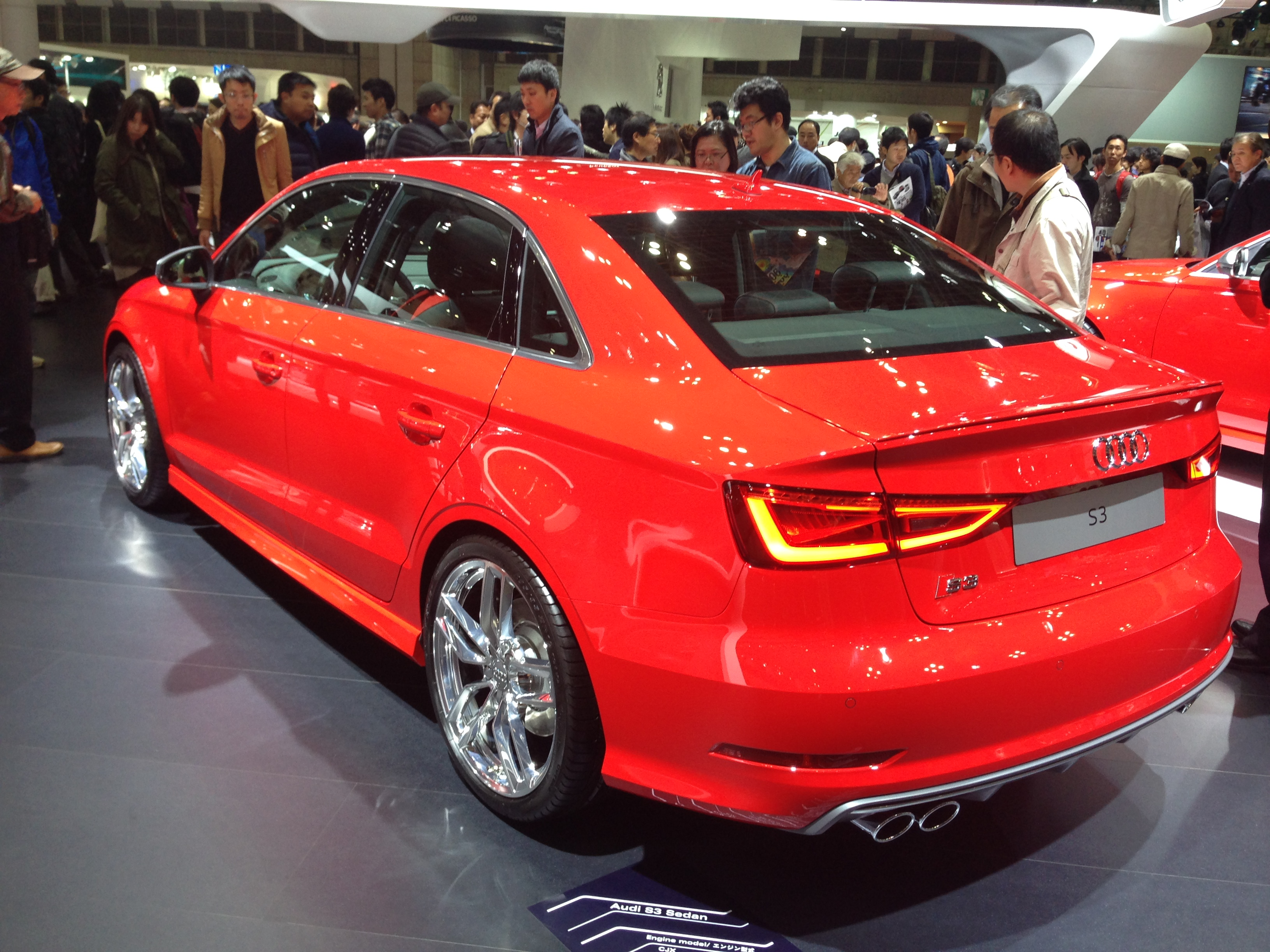 Audi S3 sedan photographed at the Tokyo Motor Show 2013.